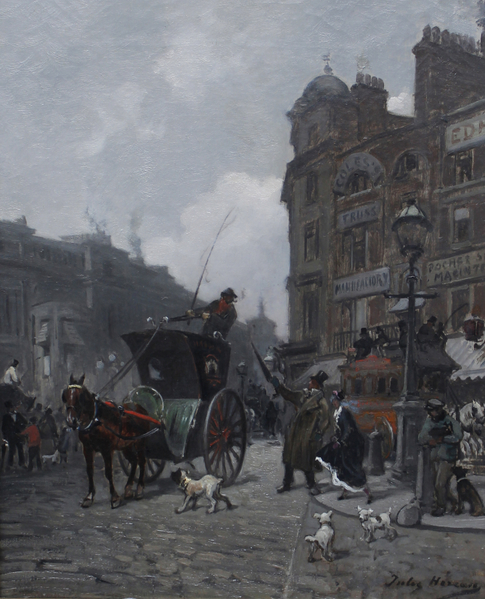 Scène animée au centre de Londres, oil on canvas signed by Jules Héreau, circa 1872-1874.